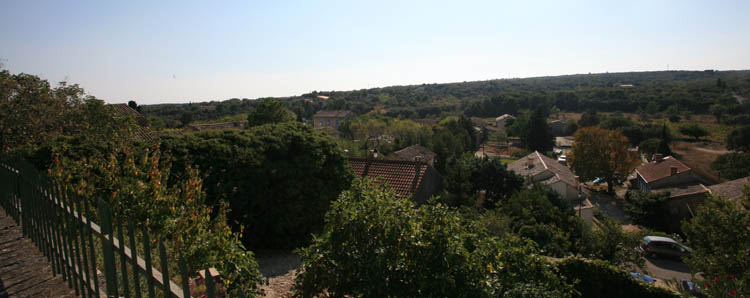 the village of Lagarde-Paréol, Vaucluse, France